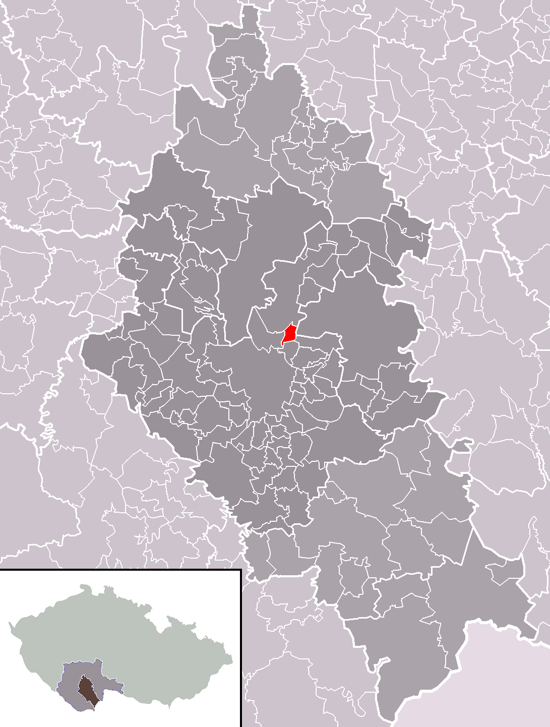 Location of Borek municipality within České Budějovice District and administrative area of České Budějovice as a Municipality with Extended Competence.